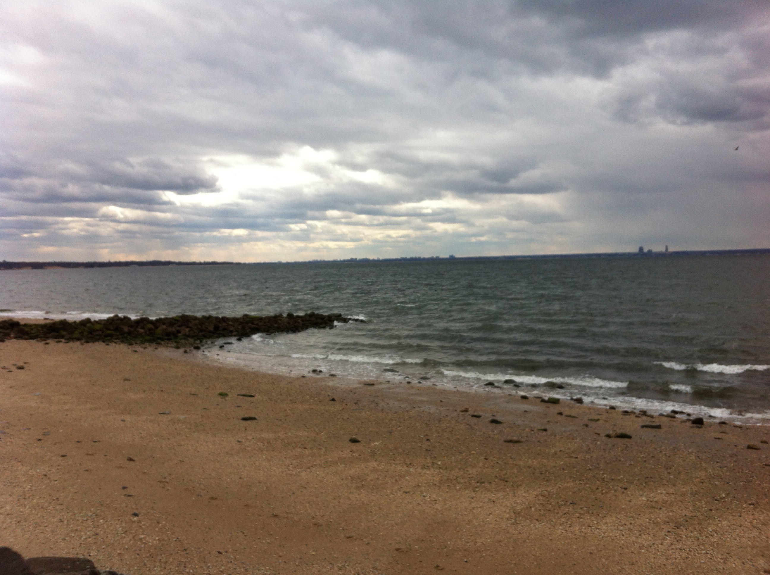 Welwyn Preserve park in Glen Cove.